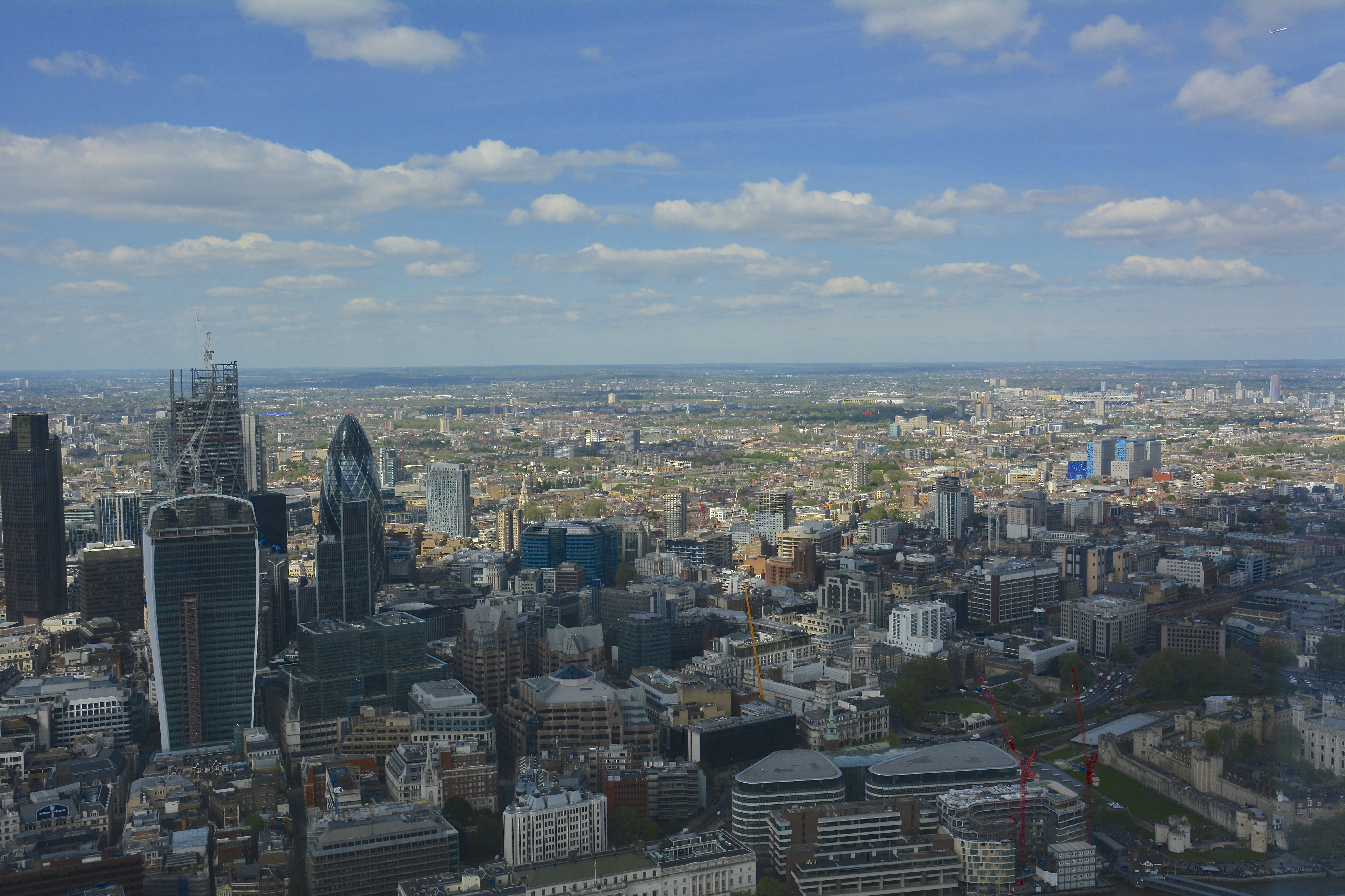 The view from The View from The Shard, the observation deck of the Shard London Bridge, London, UK.